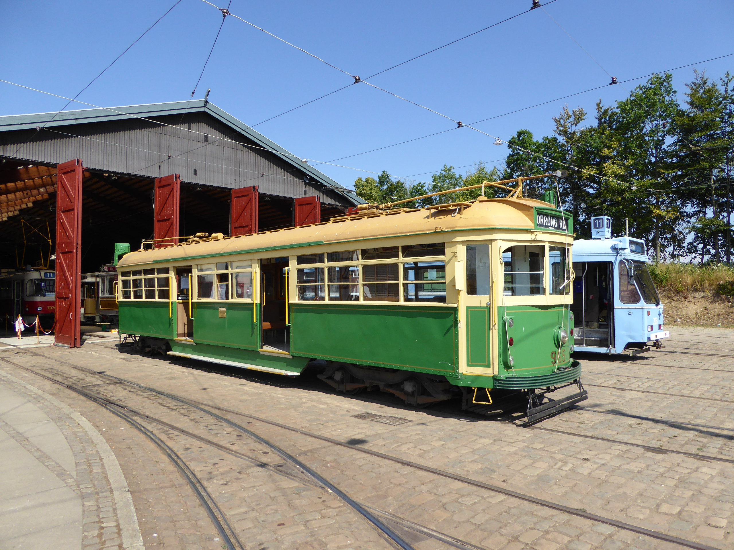 Old tram of Melbourne, M&MTB 965 from 1950, at Sporvejsmuseet Skjoldenæsholm in Denmark.